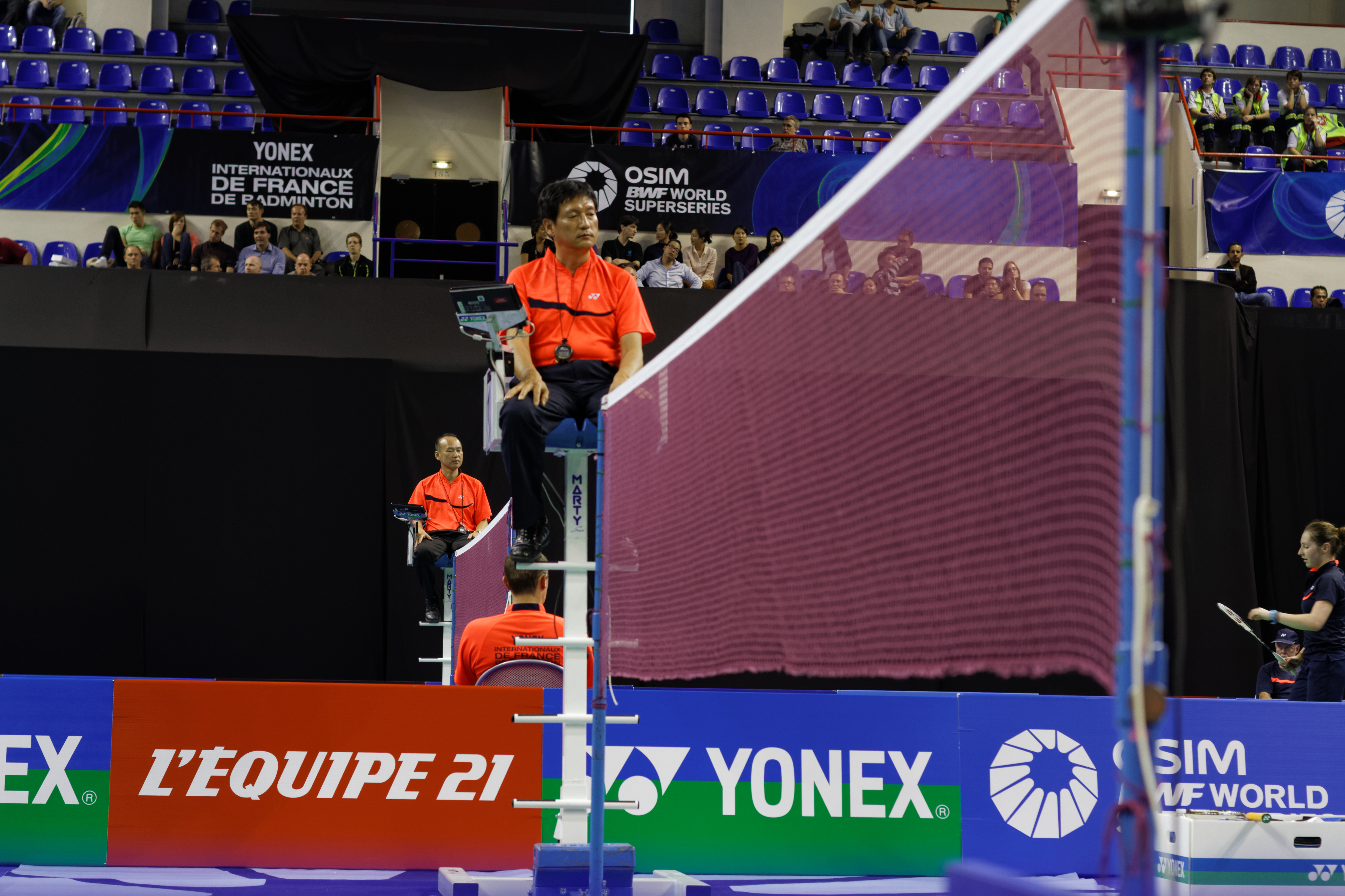 2013 French open. Men's doubles quarterfinal. Koo Kien Keat and Tan Boon Heong vs Chris Adcock and Andrew Ellis.